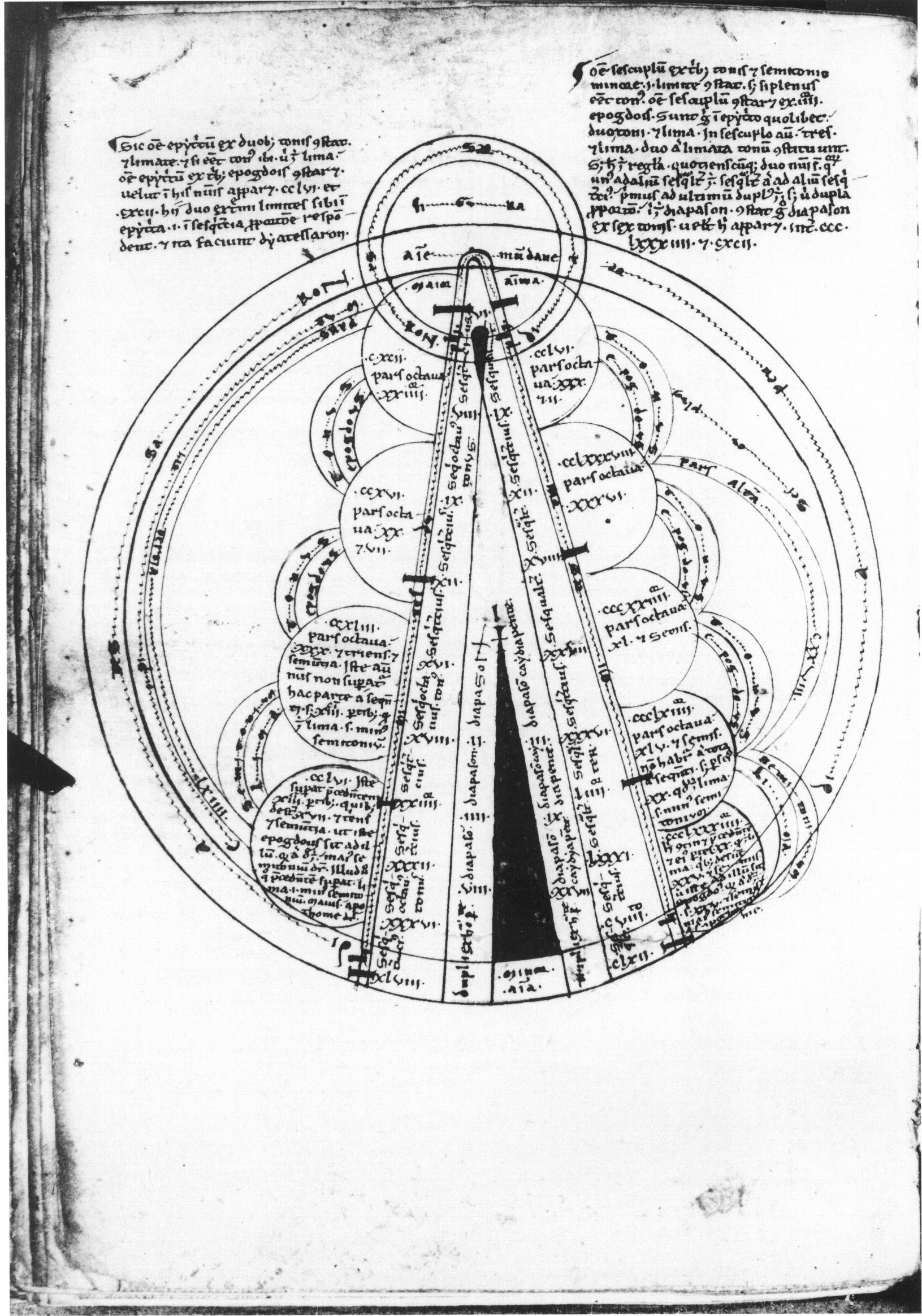 A diagram in Calcidius’ Commentary on Plato’s Timaeus. Manuscript Florence, Biblioteca Nazionale Centrale, Conv. Soppr. San Marco J.II.50, fol. 61v.